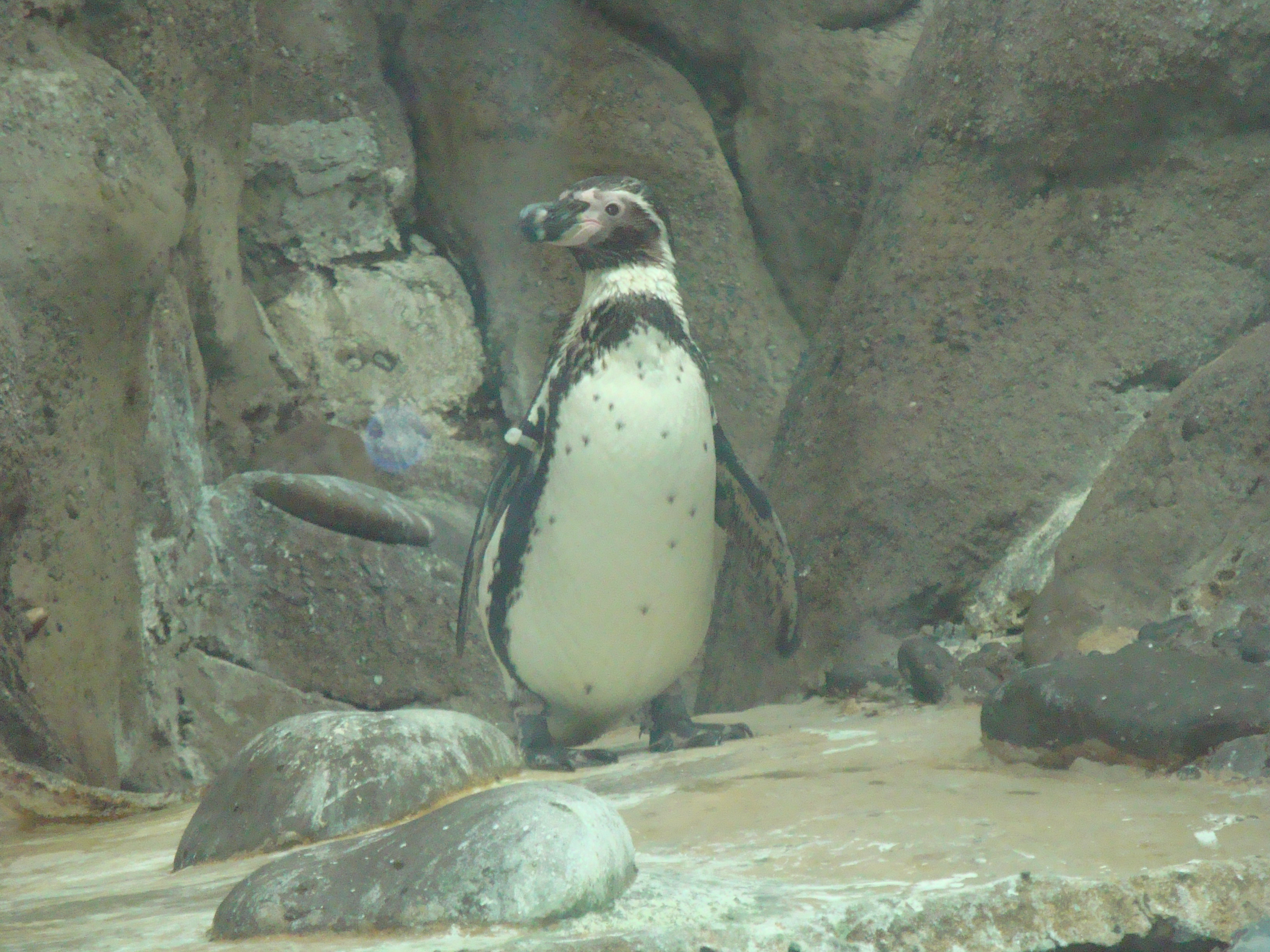 A Humboldt penguin at the Oregon Zoo in 2009